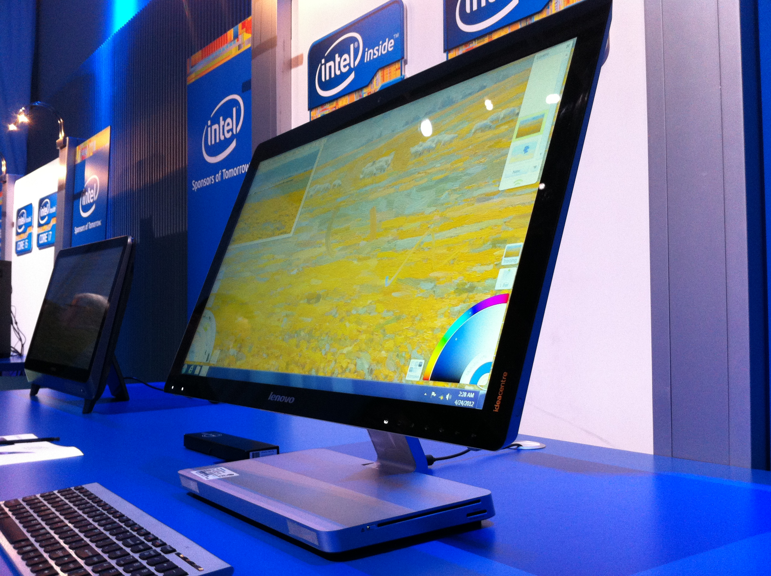 All-in-ones, or AIOs, integrate computer components with the display and rely on a single power plug. That's a contrast to traditional desktop PCs with a separate tower and monitor that connect via cable with each requiring its own power source. Intel Free Press story: All-in-Ones Revitalize Desktop PCs. Touchscreens, sleek designs and manufacturing innovations spur demand.